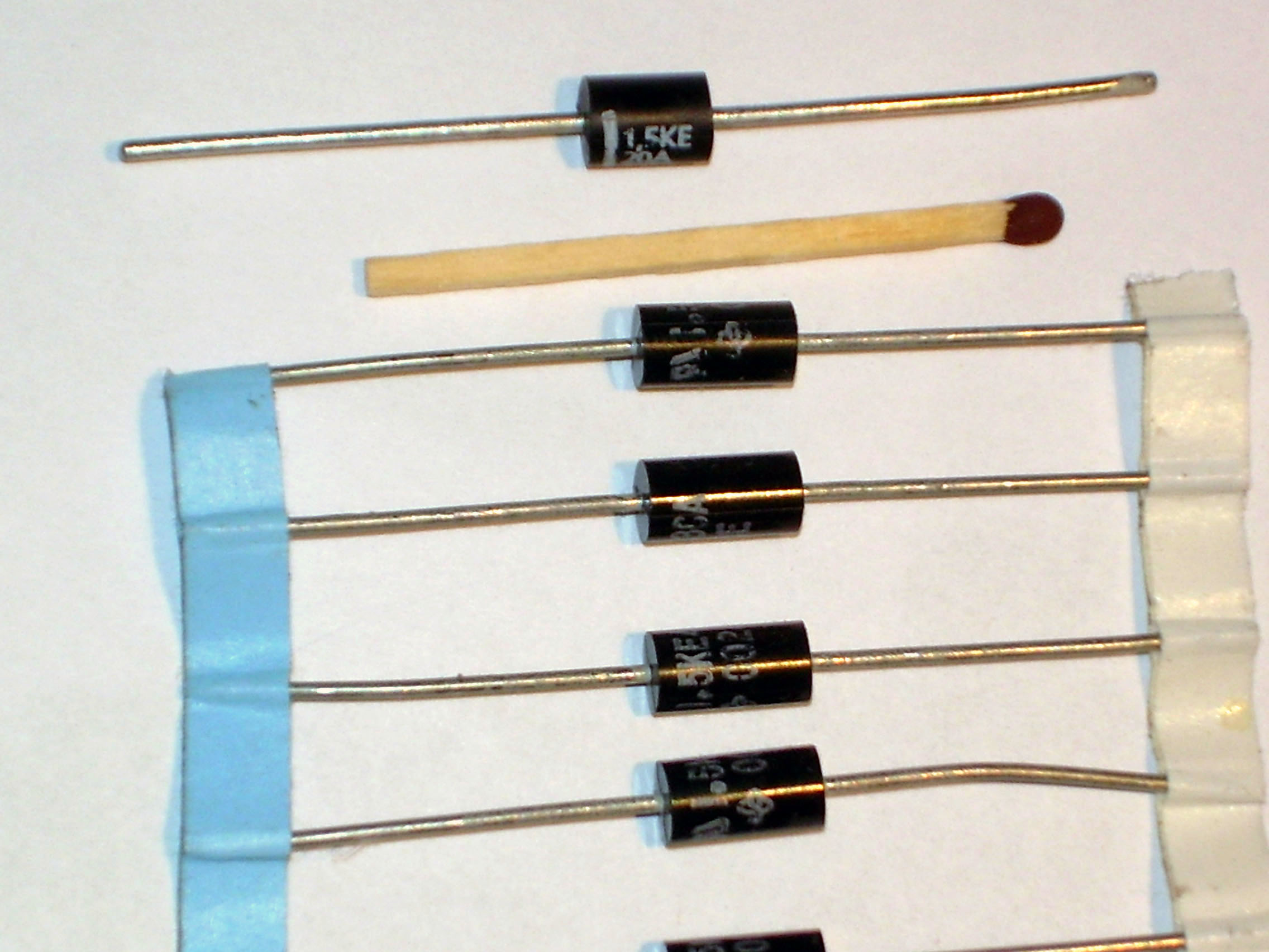 1.5KE Transil diodes (1.5kW transient voltage suppressor, or TVS, diodes). The top device is a 1.5KE20A. Color band denotes cathode on unidirectional devices, and is not present on bidirectional ones.